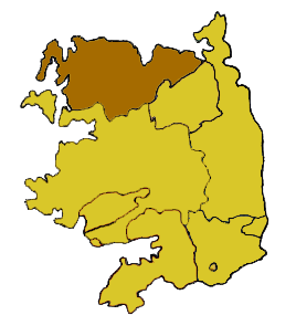 Diocese of Killala in the Catholic Province of Tuam. This is a current map of the ecclesiastical province in the Catholic Church. The crosses mark where the current Cathedrals of each diocese is located. The specific dioceses are in different colours.